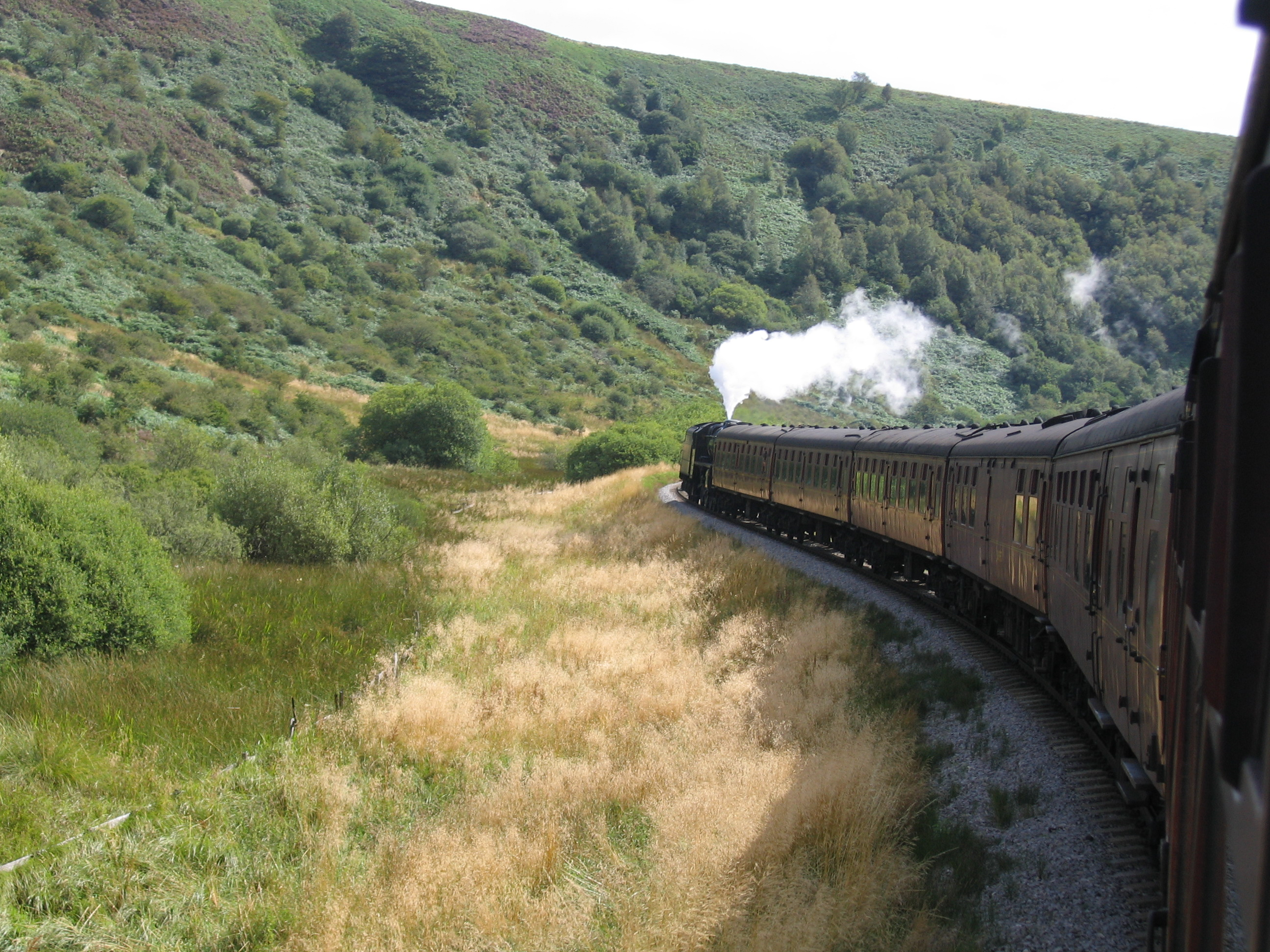 NYMR on the line